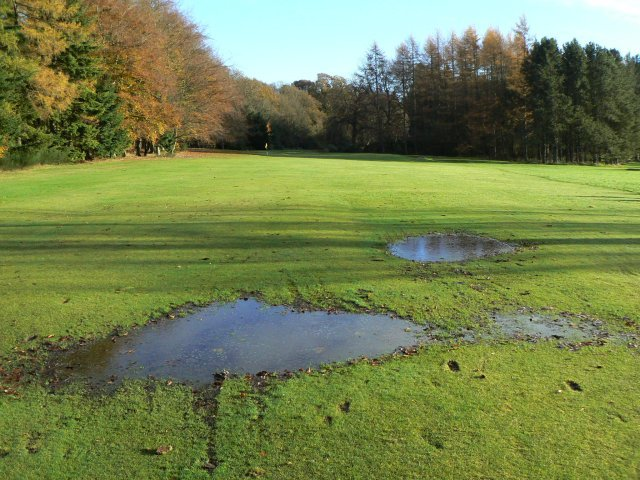 Flooded fairway On Camperdown golf course.